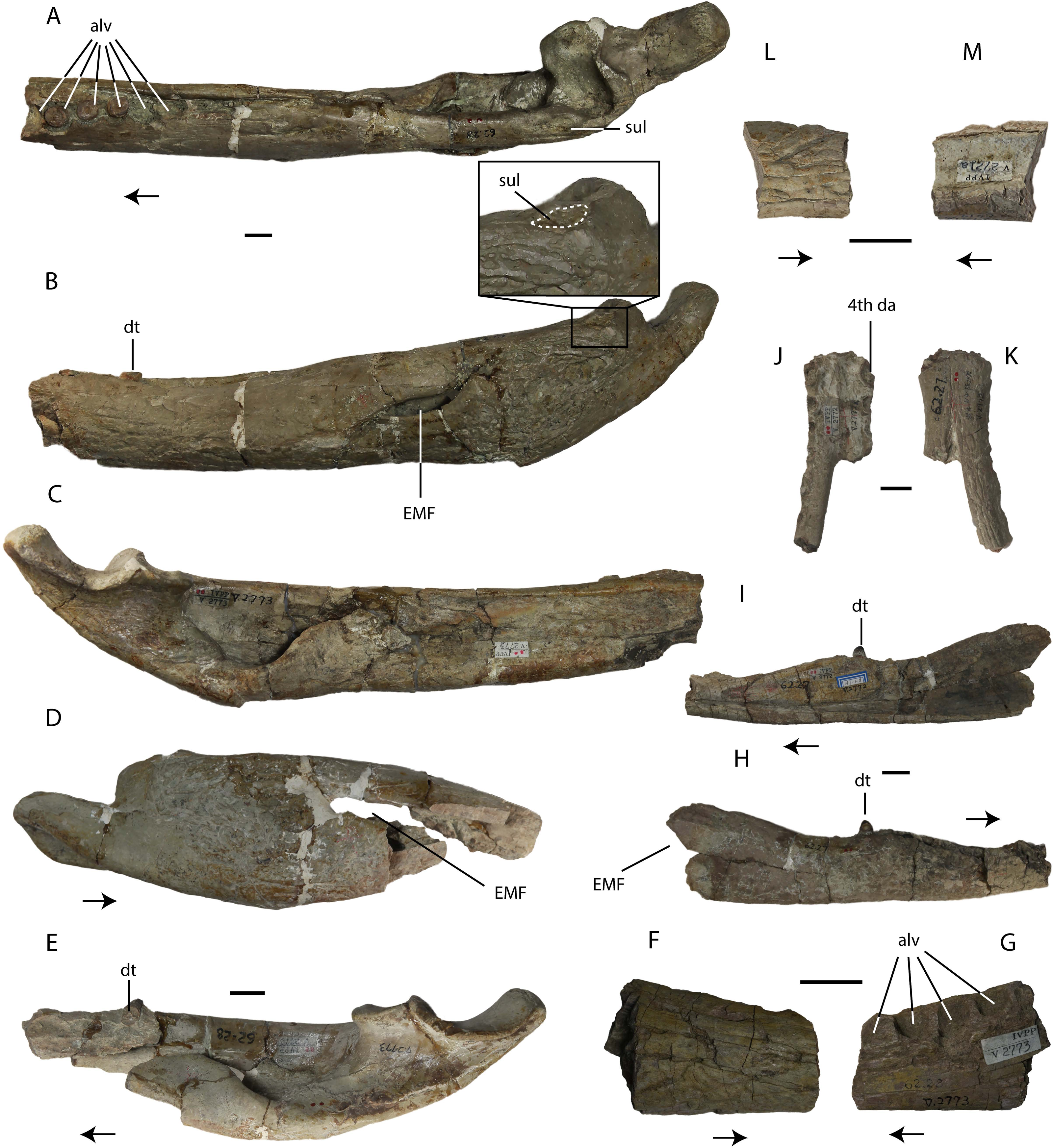 Specimens assigned by Young (1964) to Asiatosuchus nanlingensis. Including: IVPP V 2773 (holotype), left mandible in dorsal (A), lateral (B) and medial (C) views, and right mandible in lateral (D) and medial (E) views; An incomplete fragment of dentary possibly the anterior part of the holotype mandible in lateral (F) and medial (G) view; IVPP V 2772.1, right dentary in lateral (H) and medial (I) views; IVPP V 2772.2, dentary symphysis in dorsal (J) and ventral (K) views; IVPP V 2721a, dentary fragment in lateral (L) and medial (M) views. IVPP V 2772.2 appears to represent a longirostral crocodylian distinct from A. nanlingensis. Abbreviations: da, dentary alveolus; dt, dentary tooth; EMF, external mandibular fenestra. Scale bars = 2 cm.